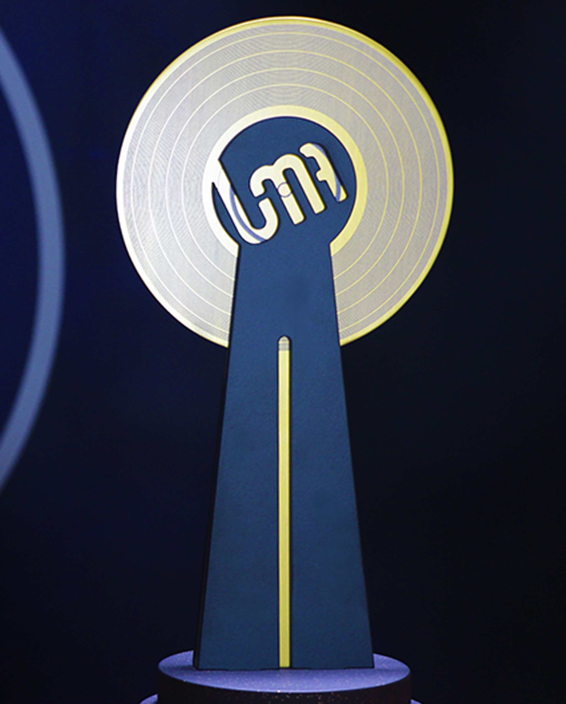 This is the official trophy for the Unsigned Music Awards 2016.